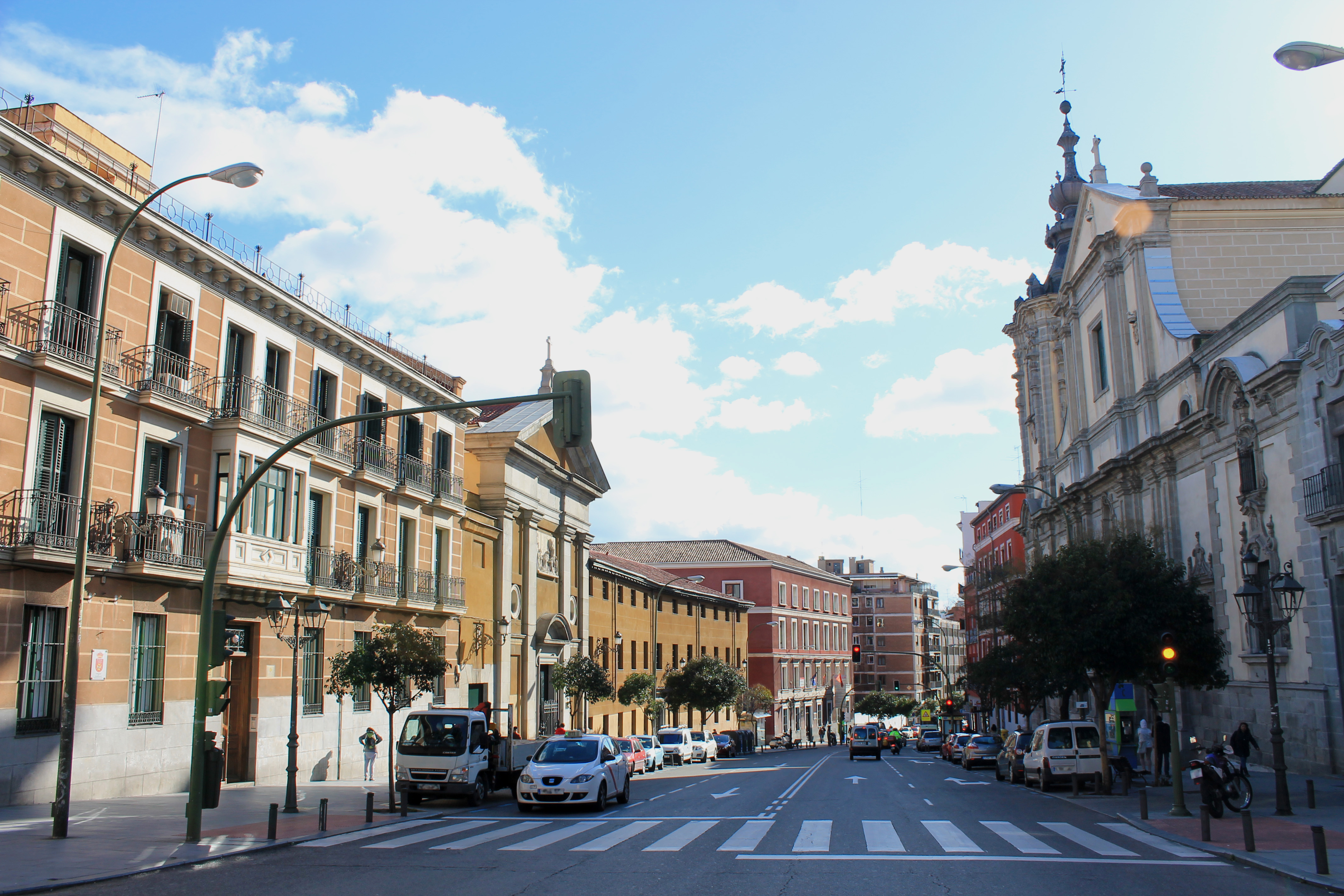 View from Calle de San Bernardo (street) in Madrid (Spain).